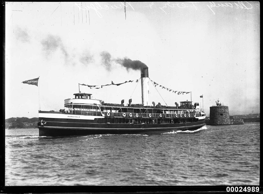 new Manly ferry, Baragoola performing her sea trials 11 August 1922. From Australian National Maritime Museum website: "This photograph depicts the Manly ferry SS BARAGOOLA performing speed trials near Fort Denison in Sydney. 'The Sydney Morning Herald' reported that the ferry went between Fort Denison and Bradleys Head and was tested both with and against the tide. There was an official luncheon held on board with a Mr E P Simpson, chairman of directors of Mort's Dock and Engineering Company Ltd, stating that the BARAGOOLA was the 42nd steamer built by the dock over a 35-year period."